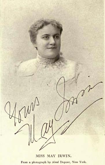 Miss May Irwin of The Irwin Sisters by Aime Dupont, New York